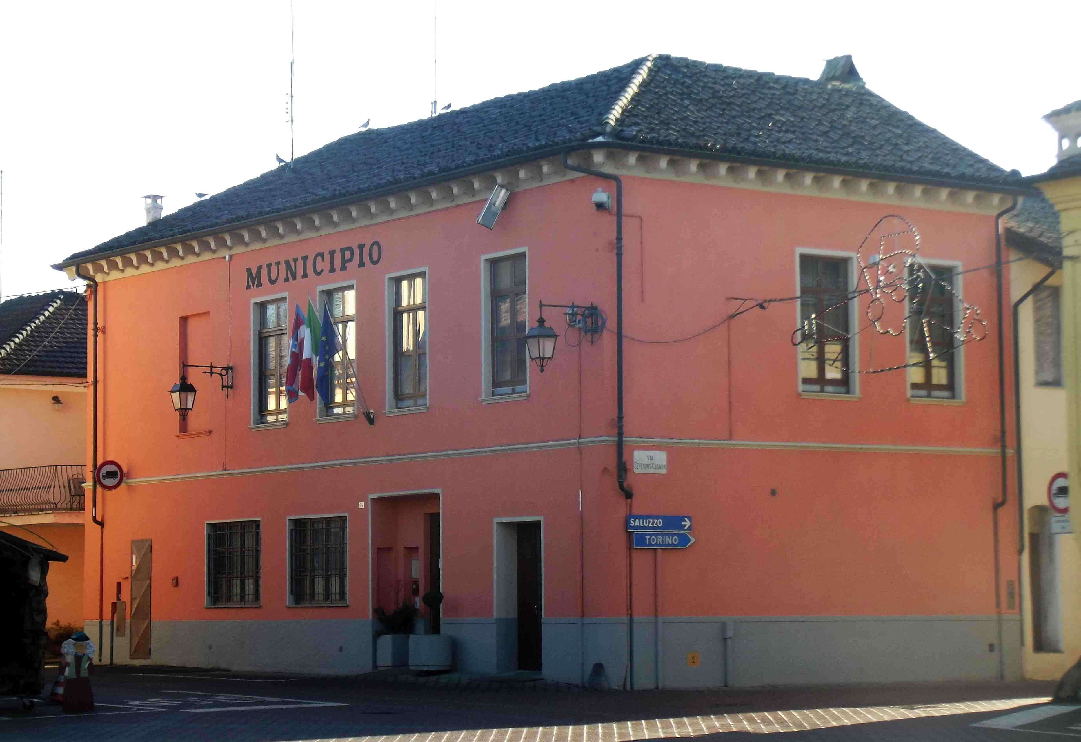 Faule (CN, Italy): town hall